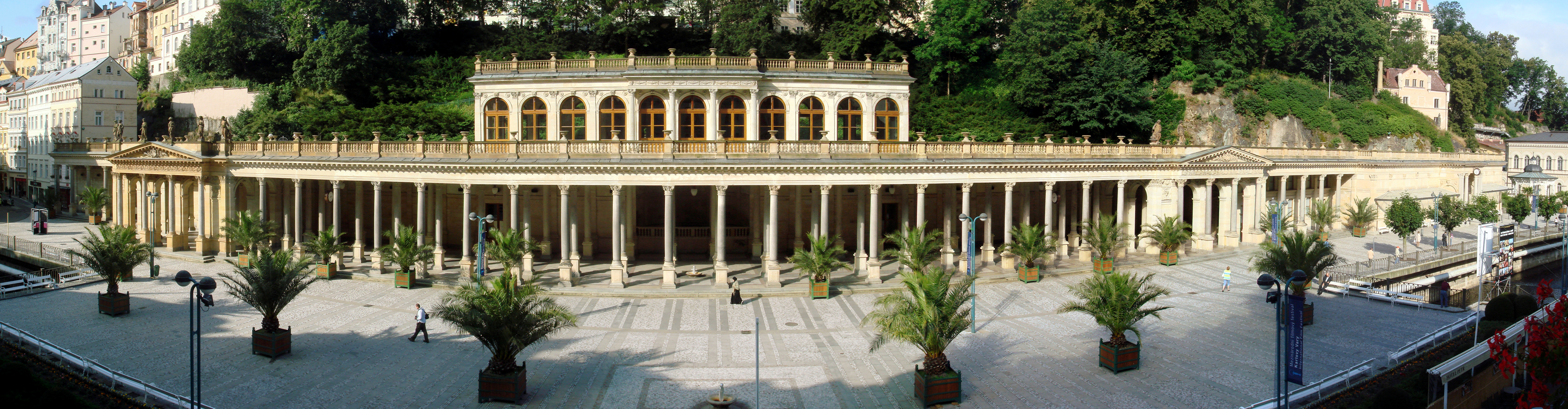 The Mill Colonnade, Karlovy Vary, Czech Republic.